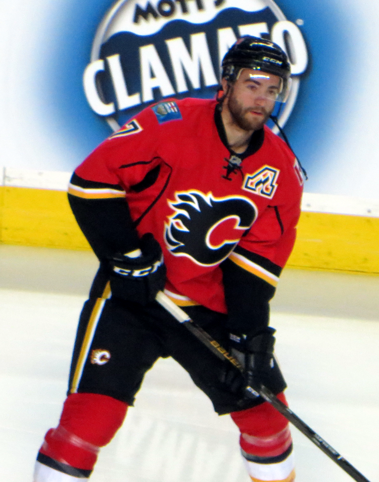 Calgary Flames defenceman T. J. Brodie prior to a National Hockey League contest in Calgary.